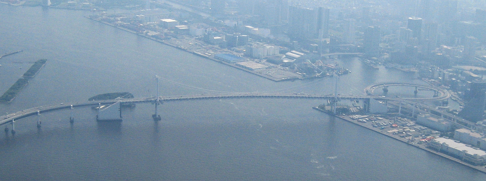 Rainbow Bridge